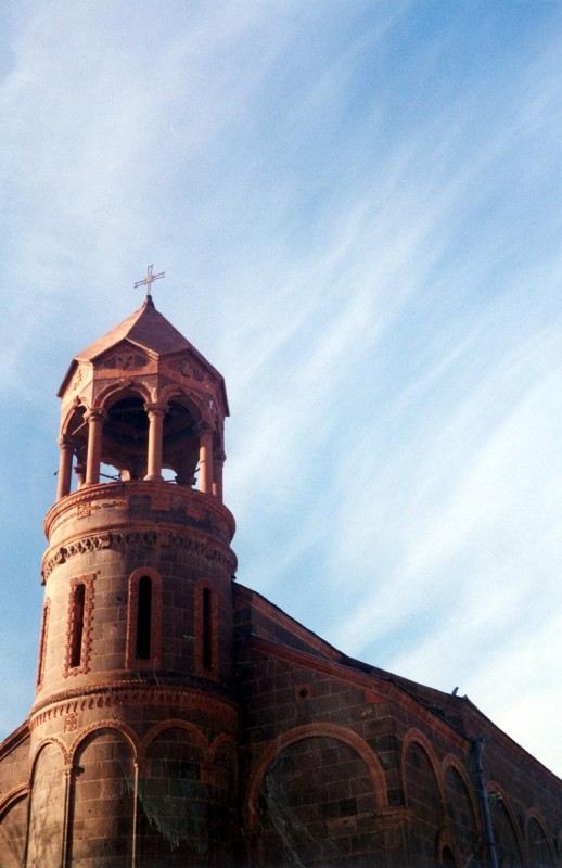 Surp Mesrop Mashtots, Oshakan, Armenia